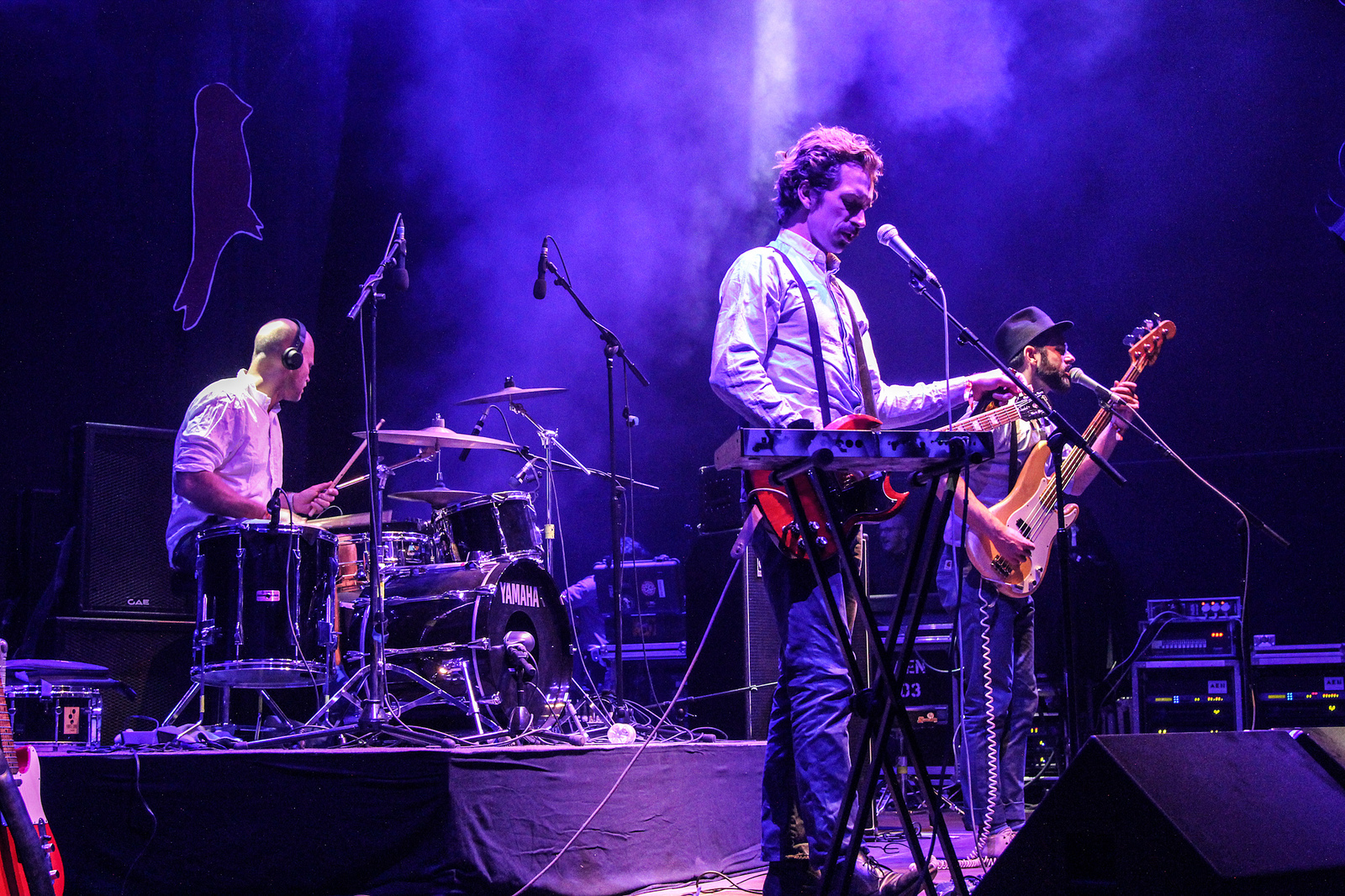 Whomadewho spielen live auf dem Immergut Festival 2012